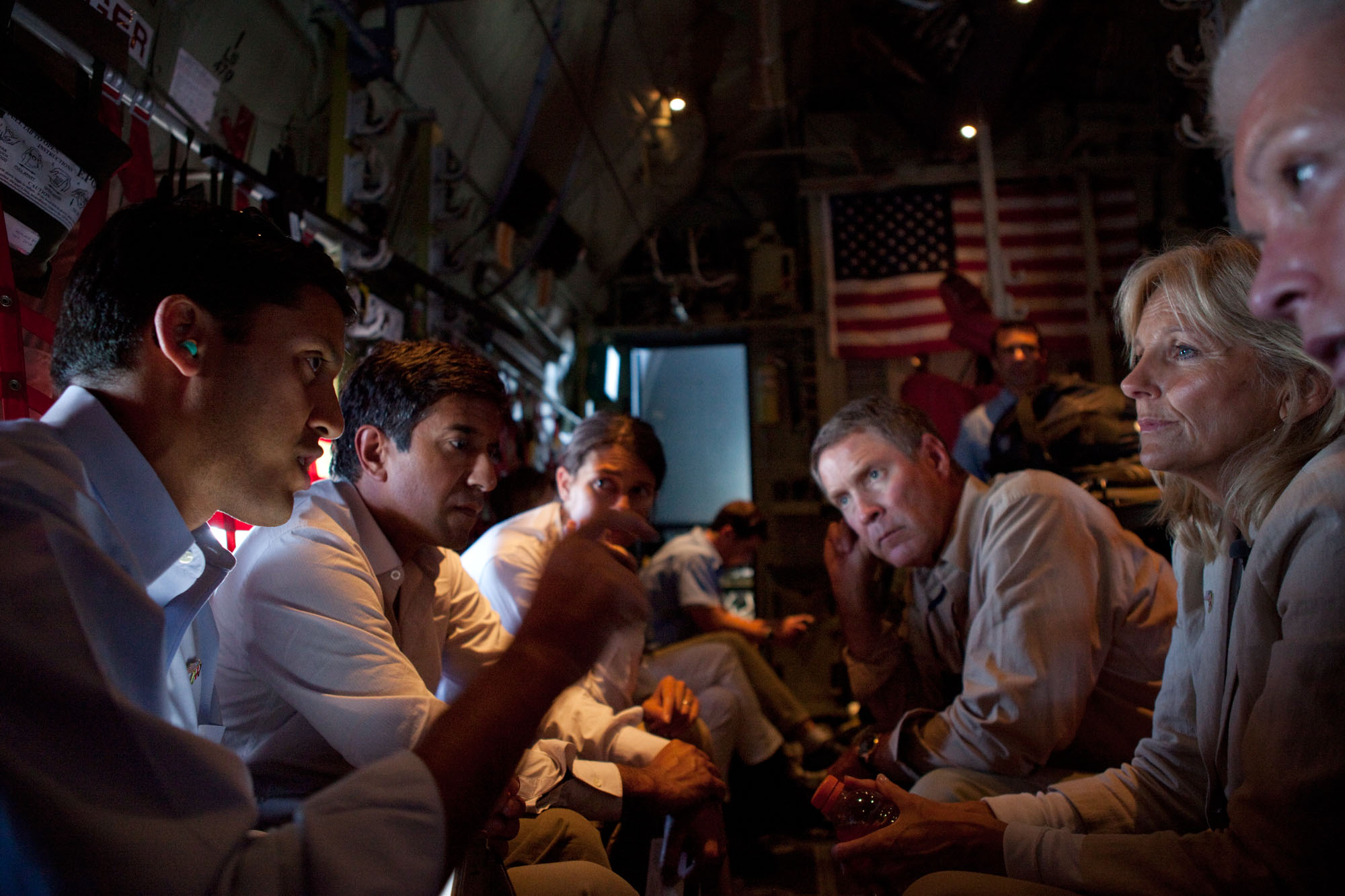 USAID Administrator Dr. Rajiv Shah, left, briefs Dr. Jill Biden and others on board a plane on the way to the Dagahaley refugee camp, in Dadaab, Kenya, Aug. 8, 2011. Pictured from left, are: Dr. Sanjay Gupta, CNN Chief Medical Correspondent; Courtney O'Donnell, Communications Director to Dr. Jill Biden; former Sen. Majority Leader Bill Frist; and Gayle Smith, Special Assistant to the President and Senior Director, National Security Council. (Official White House Photo by David Lienemann)